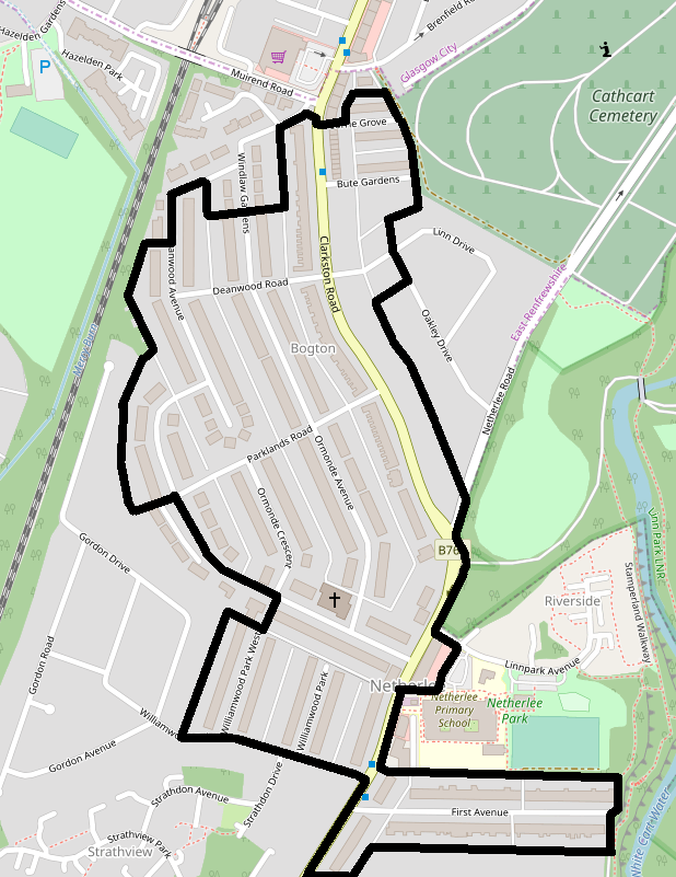 Netherlee is now a conservation area. this is the border